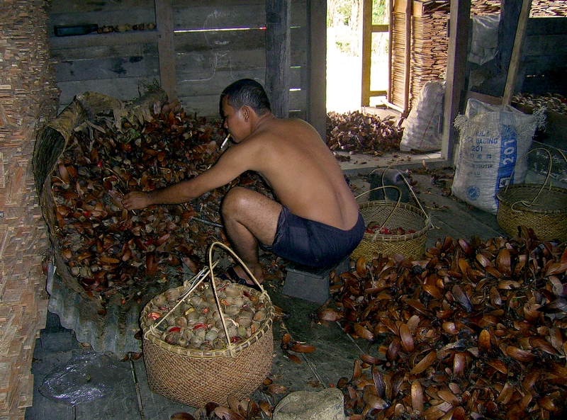 Sorting and opening tengkawang (Shorea sp.) fruits, before smoking it. Sungai Utik, Kapuas Hulu, West Kalimantan, Indonesia